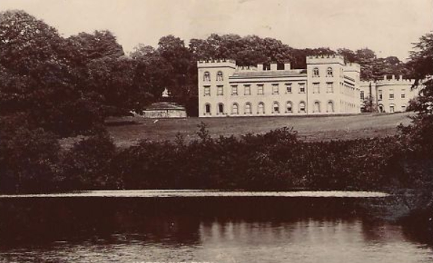 Ugbrooke House, Chudleigh, Devon 1908